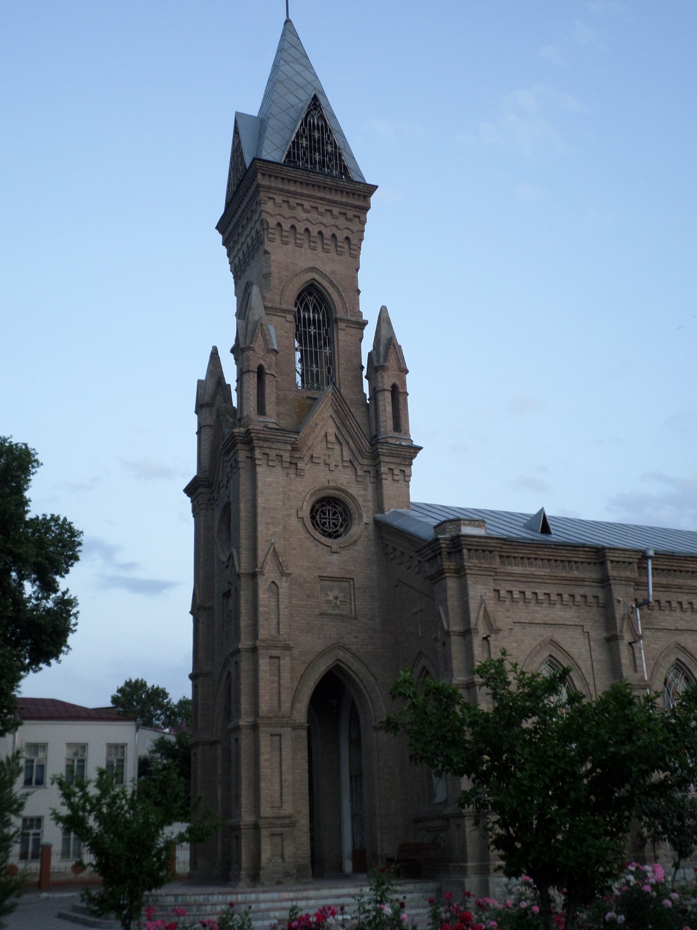 Church Saint John Baptist in Samarkand